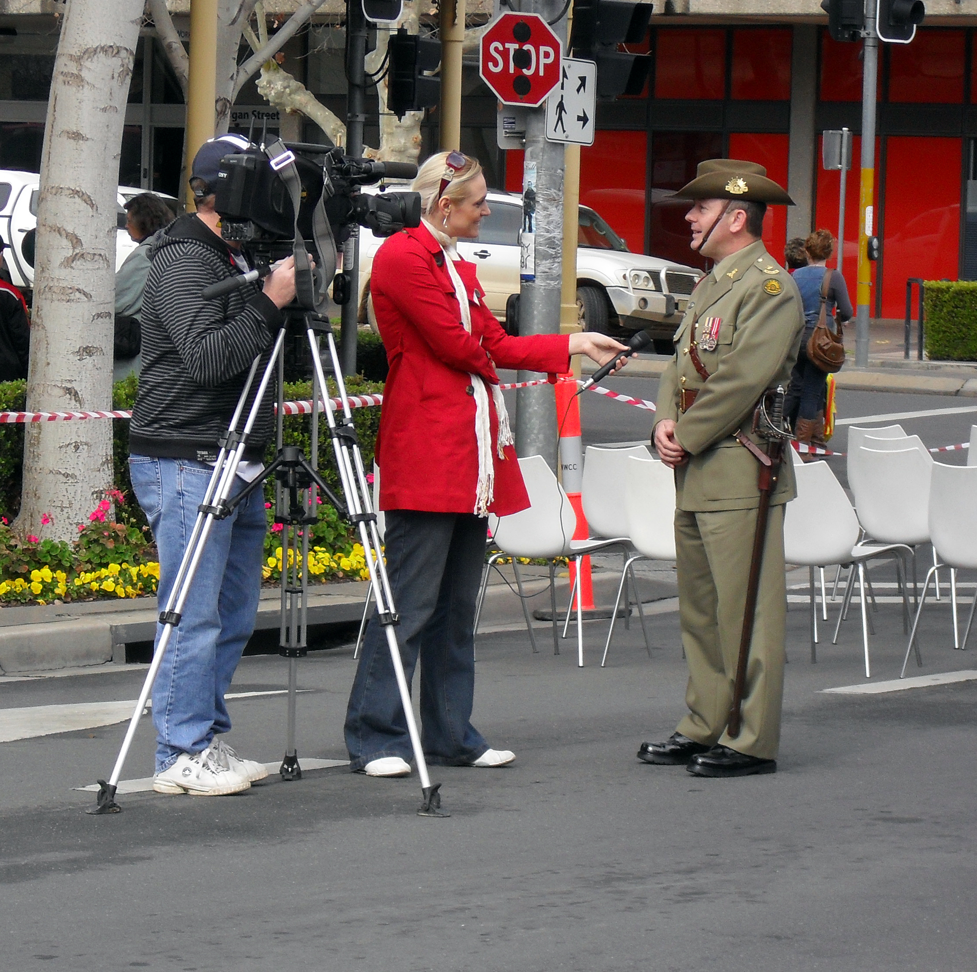 WIN News cameraman Michael Patterson and WIN News reporter, Erin Willing interviewing Major Jeff Cocks at the Freedom of the City for the Australian Army Band Kapooka in Wagga Wagga, New South Wales, Australia.